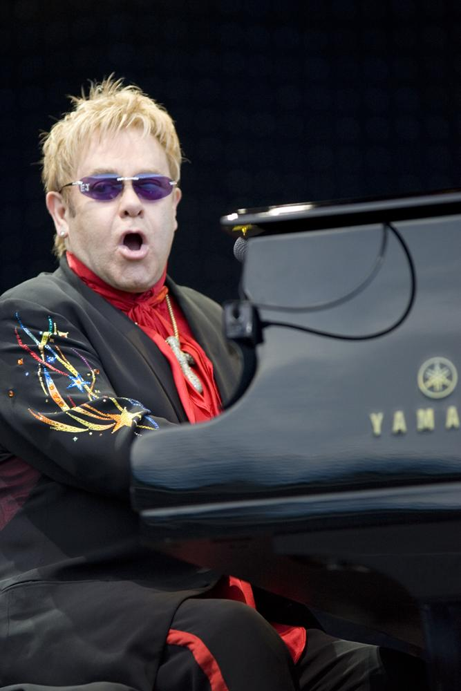 Elton John, English singer-songwriter and pianist, performing on stage at the Keepmoat Stadium, Doncaster, England.